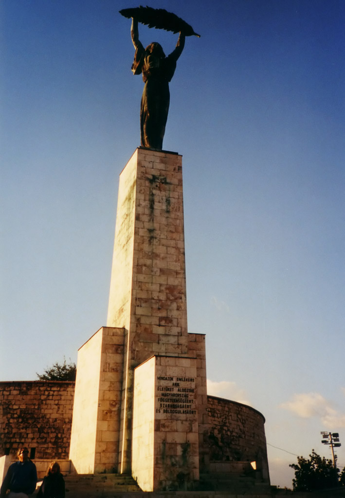 Statue of Liberty, Budapest, Hungary